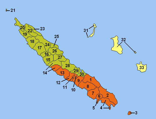 Created map myself.